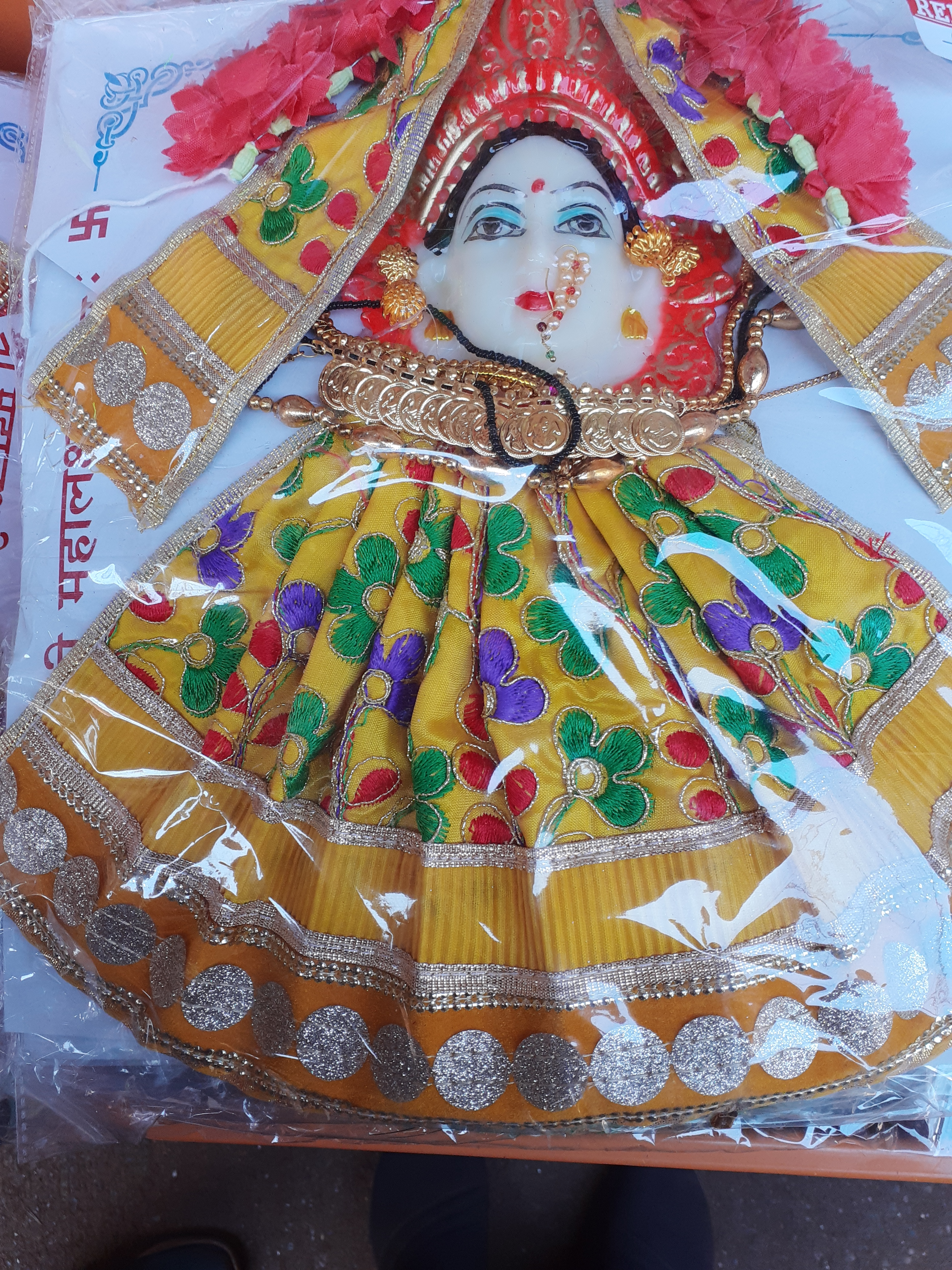 Hindu worship in the month of Margshirsh - deity decoration items